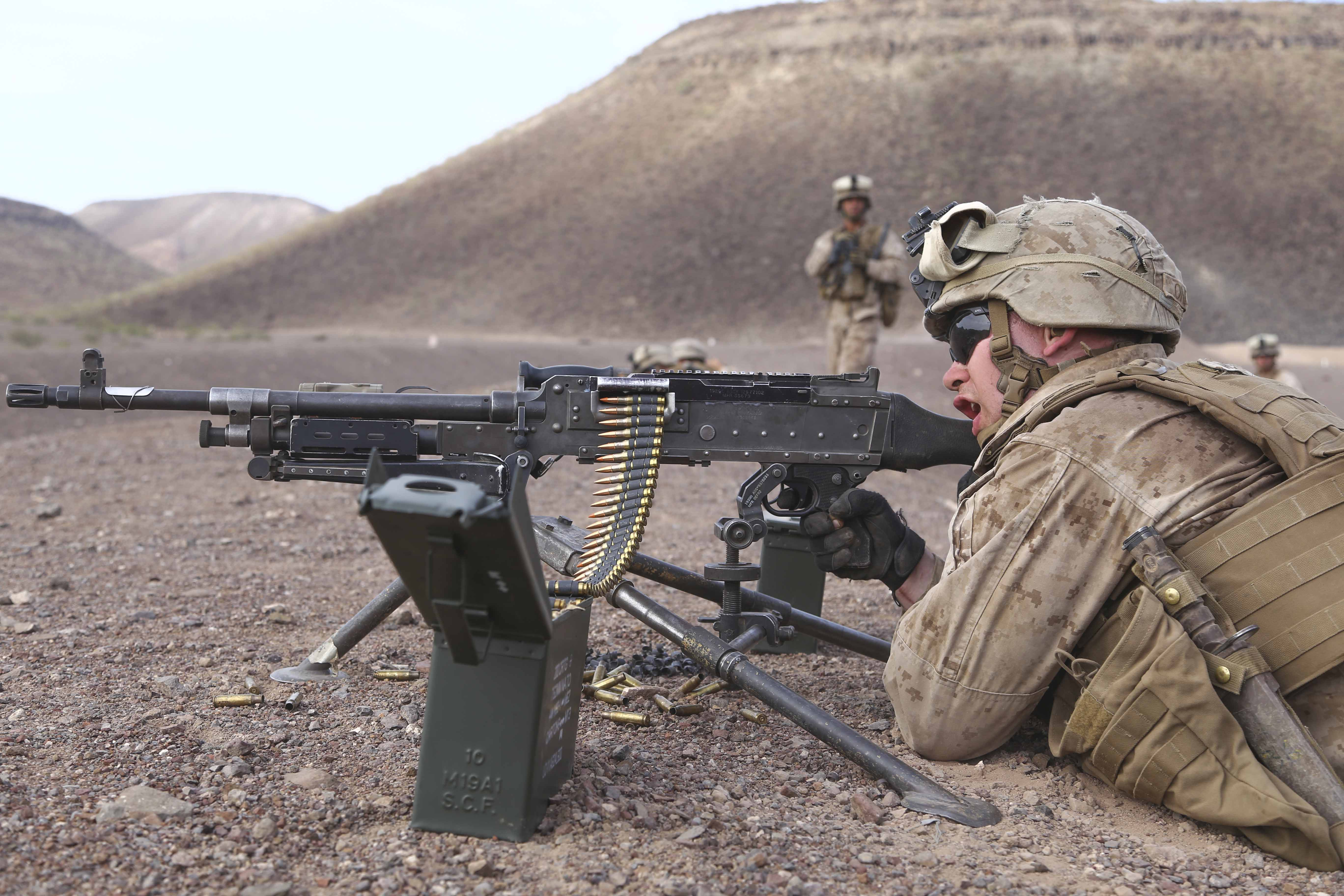 6TH FLEET AREA OF RESPONSIBILITY (Dec. 10, 2014) – Marines with Golf Company, Battalion Landing Team 2nd Battalion, 1st Marines, 11th Marine Expeditionary Unit (MEU), conduct a live-fire movement, during sustainment training in D'Arta Plage, Djibouti, Dec. 10. The Makin Island Amphibious Ready Group (ARG) and the embarked 11th MEU are deployed in support of maritime security operations and theater security cooperation efforts in the U.S. 5th Fleet area of responsibility. M13 links connect up to 200 7.62×51mm NATO rounds (4 × M80 Ball : 1 M62 Tracer) contained in an M19A1 ammunition box used to feed a M240G machine gun. (U.S. Marine Corps photo by Cpl. Laura Y. Raga/Not Released)